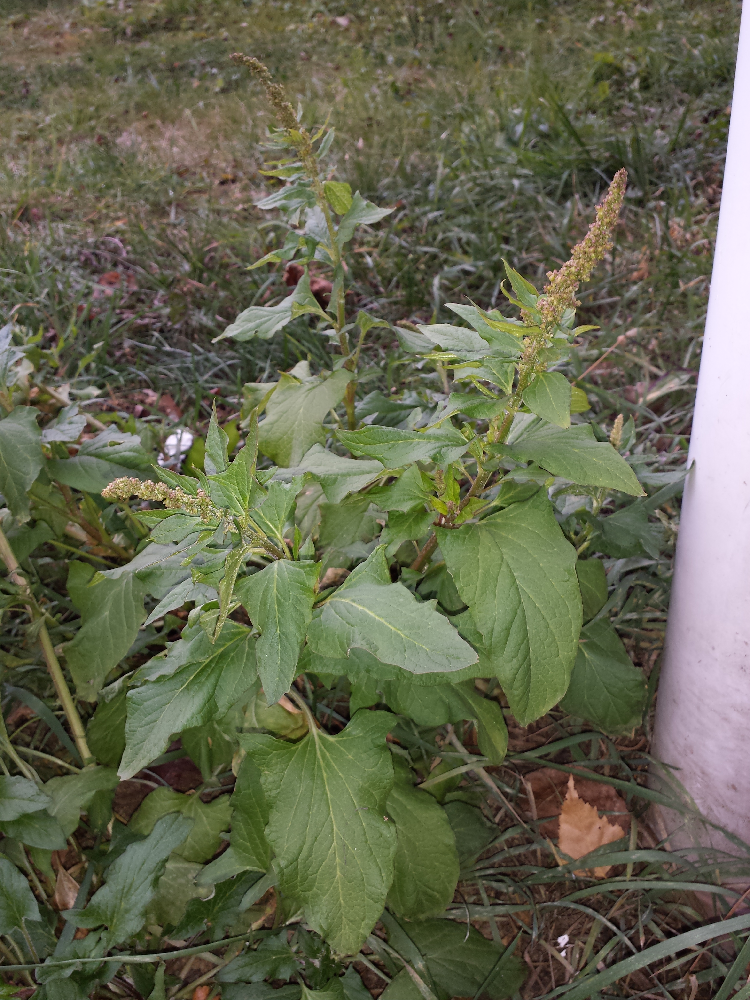 Habitus Taxonym: Chenopodium bonus-henricus ss Fischer et al. EfÖLS 2008 ISBN 978-3-85474-187-9 Location: Lembach, district Zwettl, Lower Austria - ca. 734 m a.s.l. Habitat: ruderal area beside a house within a village